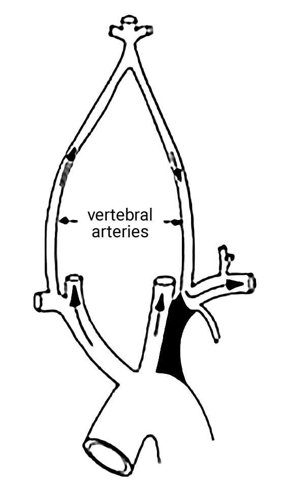 The proximal part of left subclavian is blocked on left side so no flow in vertebral and to left arm.blood from right vertebral enters left vertebral and flows back to supply left arm